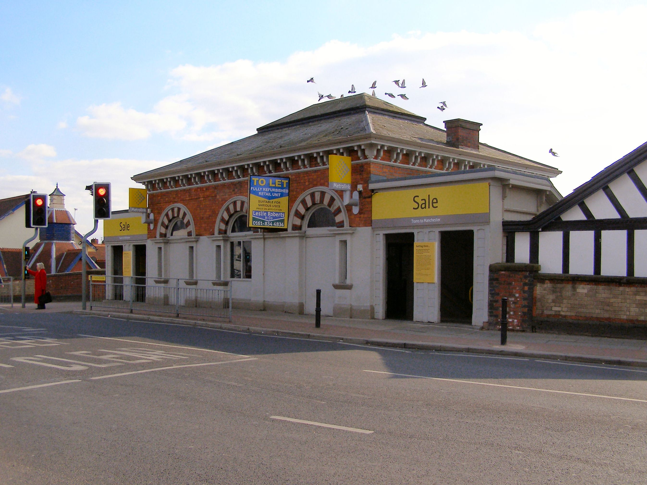 Sale Station From School Road.